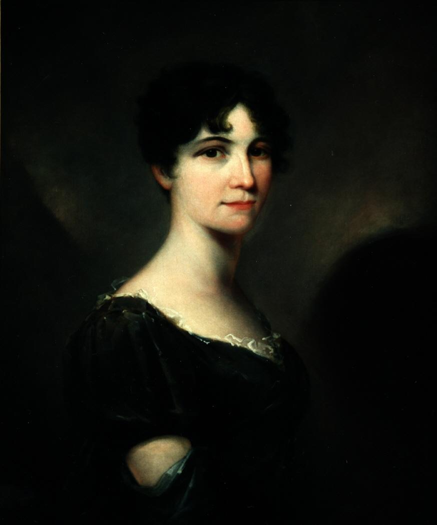 Portrait of Harriet Arbuthnot (1793-1834) was an early 19th century English diarist, political hostess and close friend of the Duke of Wellington